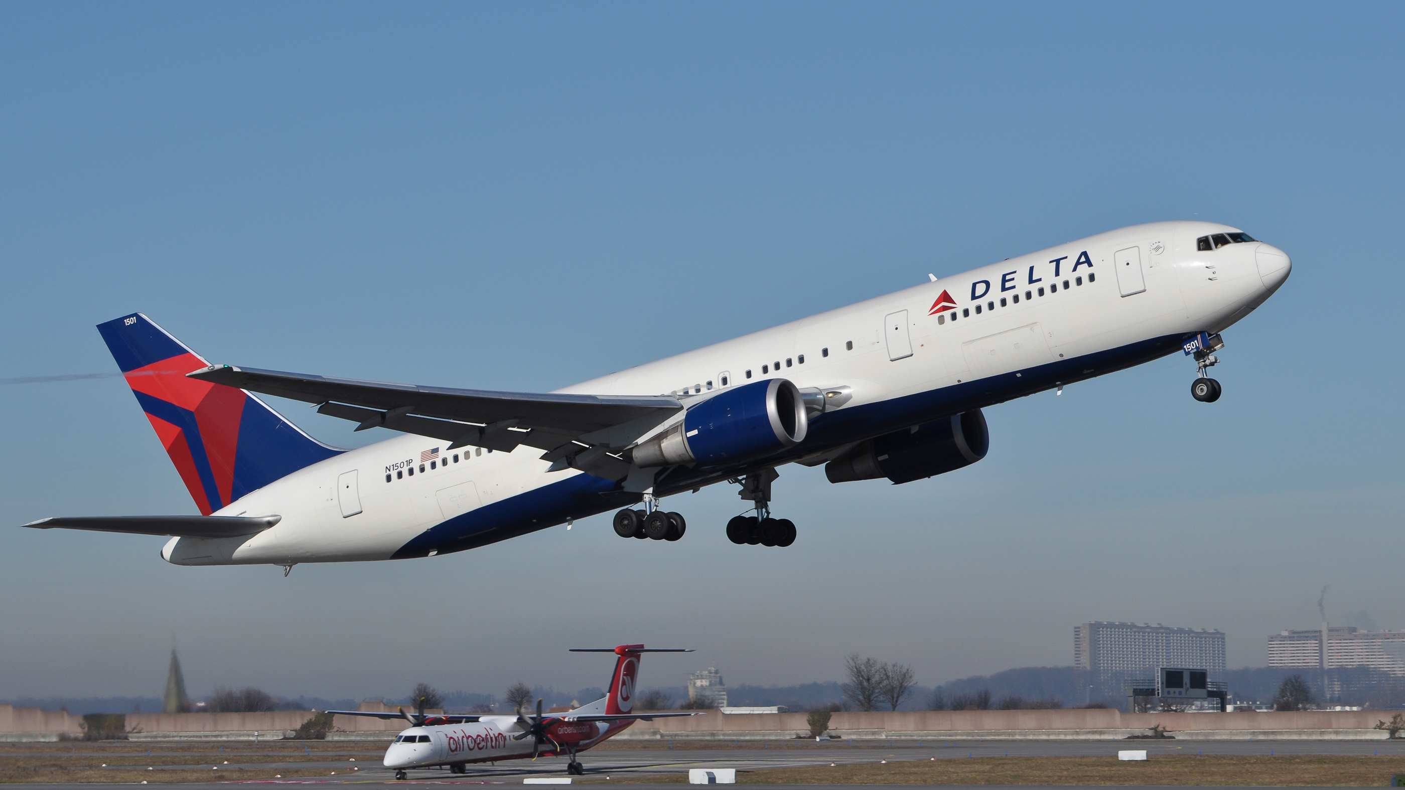 Delta Air Lines Boeing 767-3P6/ER (reg. N1501P, cn 24983/334) taking off at Stuttgart Airport (STR/EDDS).